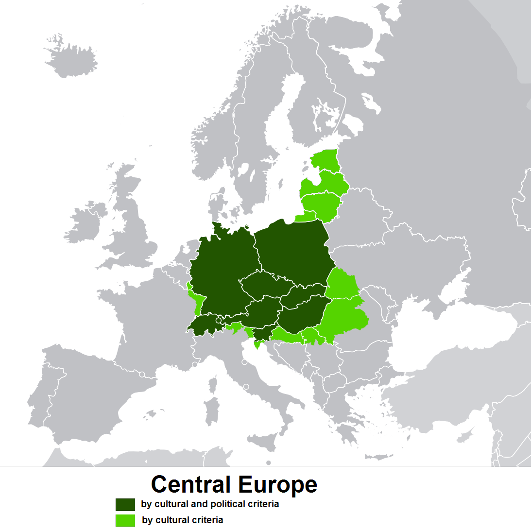 Central Europe, core countries and territories that are sometimes included